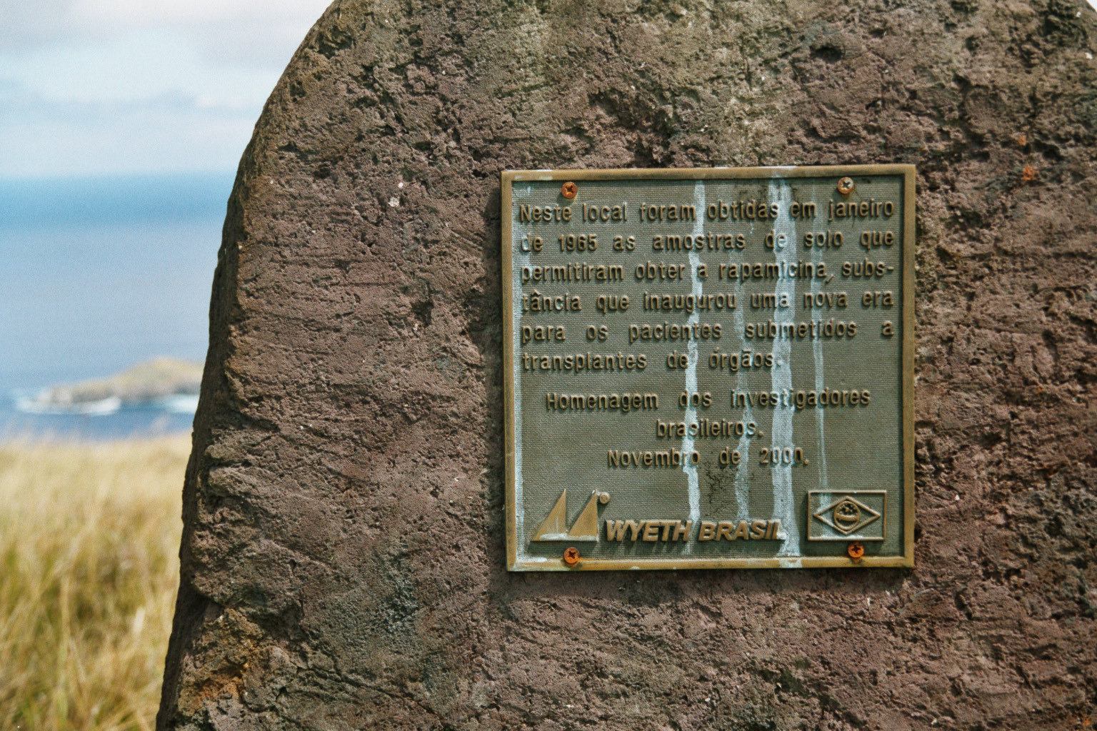 A plaque commemorating the discovery of rapamycin (sirolimus) on Rapa Nui (Easter Island), near Rano Kau. The plaque is written in Portuguese, and reads: In this location were obtained, in January 1965, soil samples that allowed for the obtention of rapamycin, a substance that inaugurated a new era for organ transplant patients. An homage from the Brazilian researchers, November 2000.